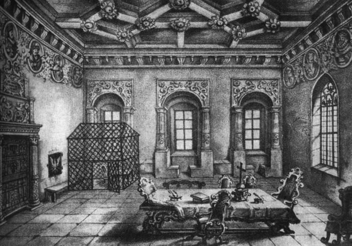 Main Hall in nonexisting Town Hall of Cracow